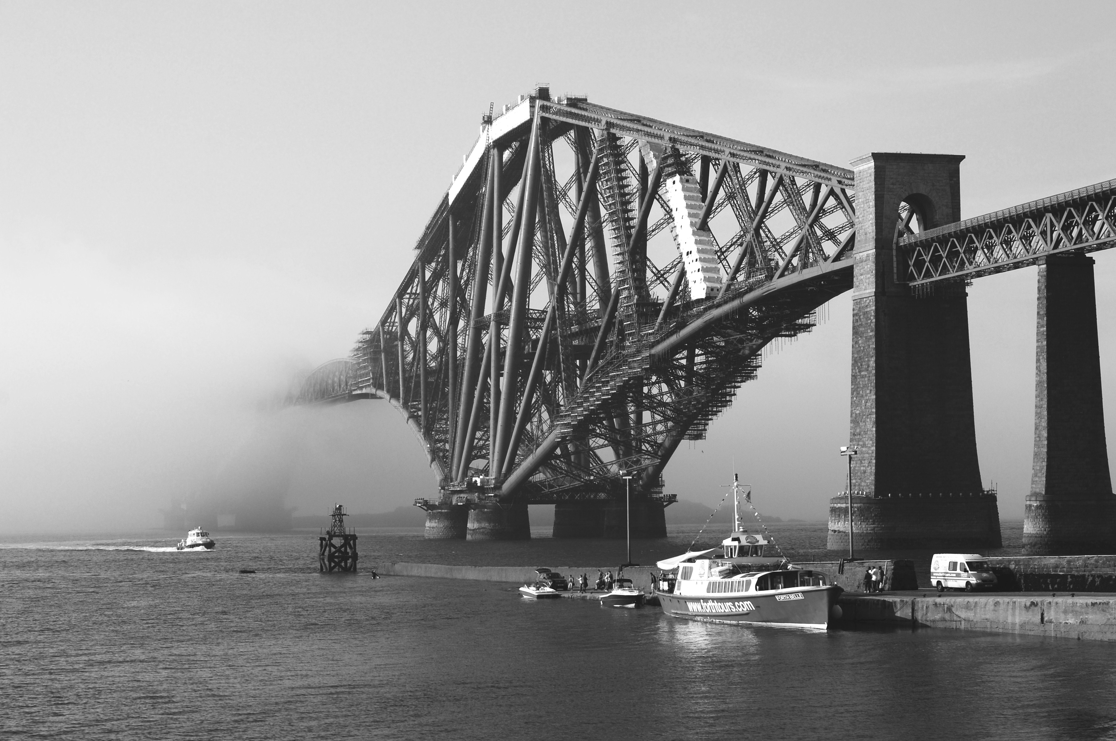 The Haar (sea fog) coming in over South Queensferry and partially shrouding the Forth Bridge